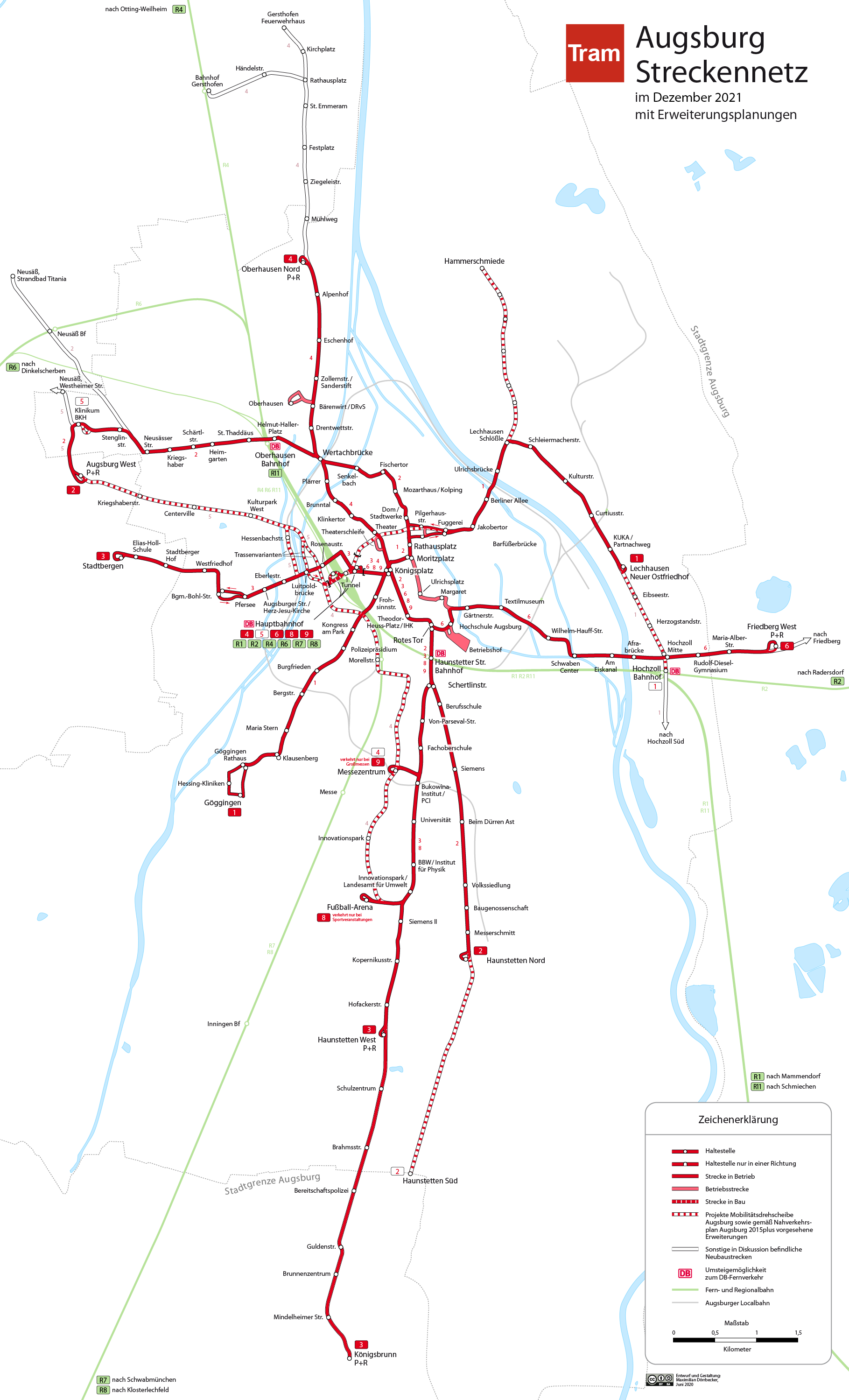 Map: Augsburg streetcar network